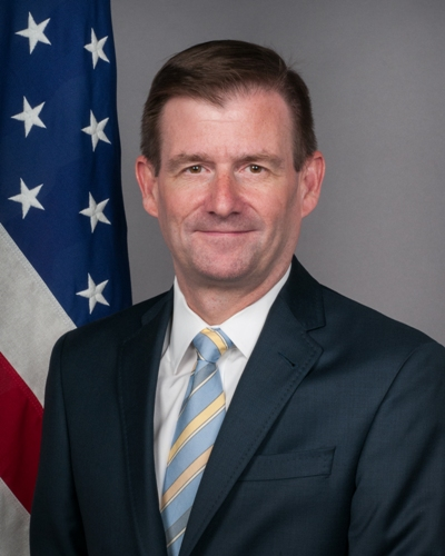 David Hale, Ambassador to the Islamic Republic of Pakistan